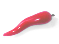 Small Italian red horn amulet with clip